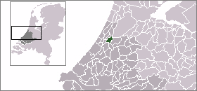 Location of Dutch former municipality Warmond in 2005. Made by me (Mtcv), PD.